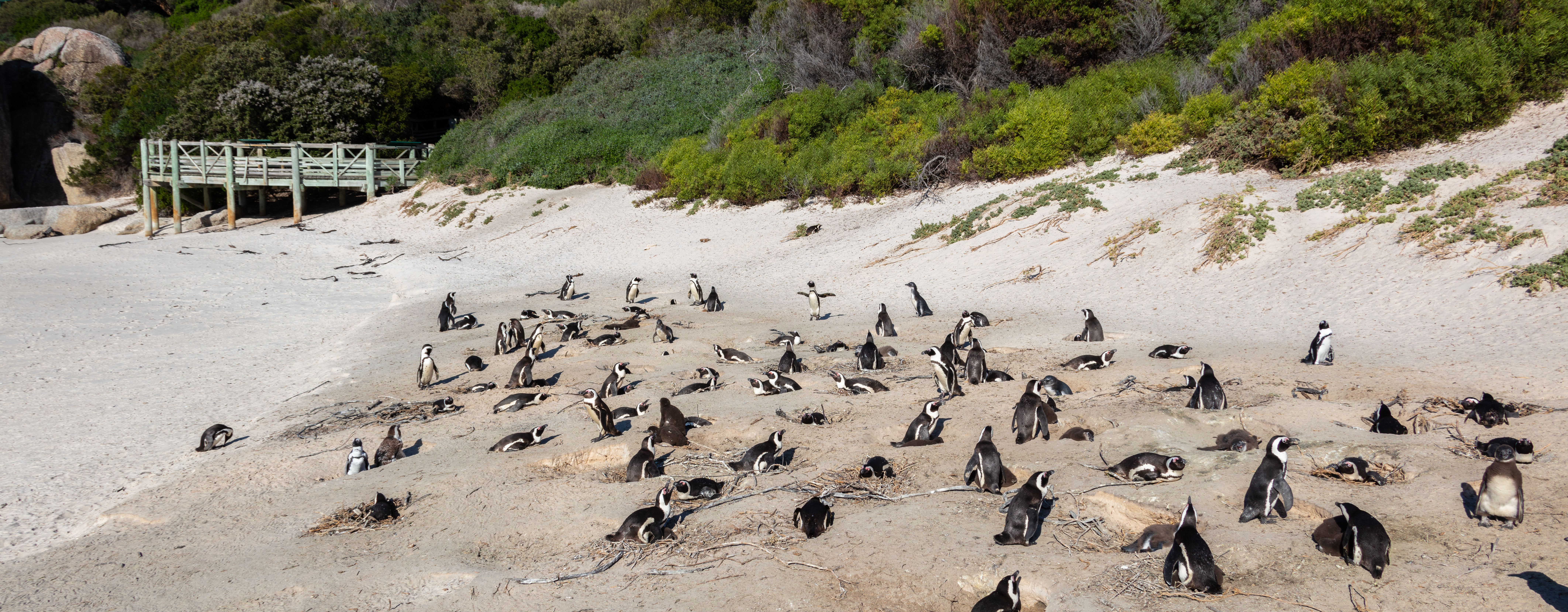 African penguins (Spheniscus demersus), Boulders Beach, Simon's Town, South Africa